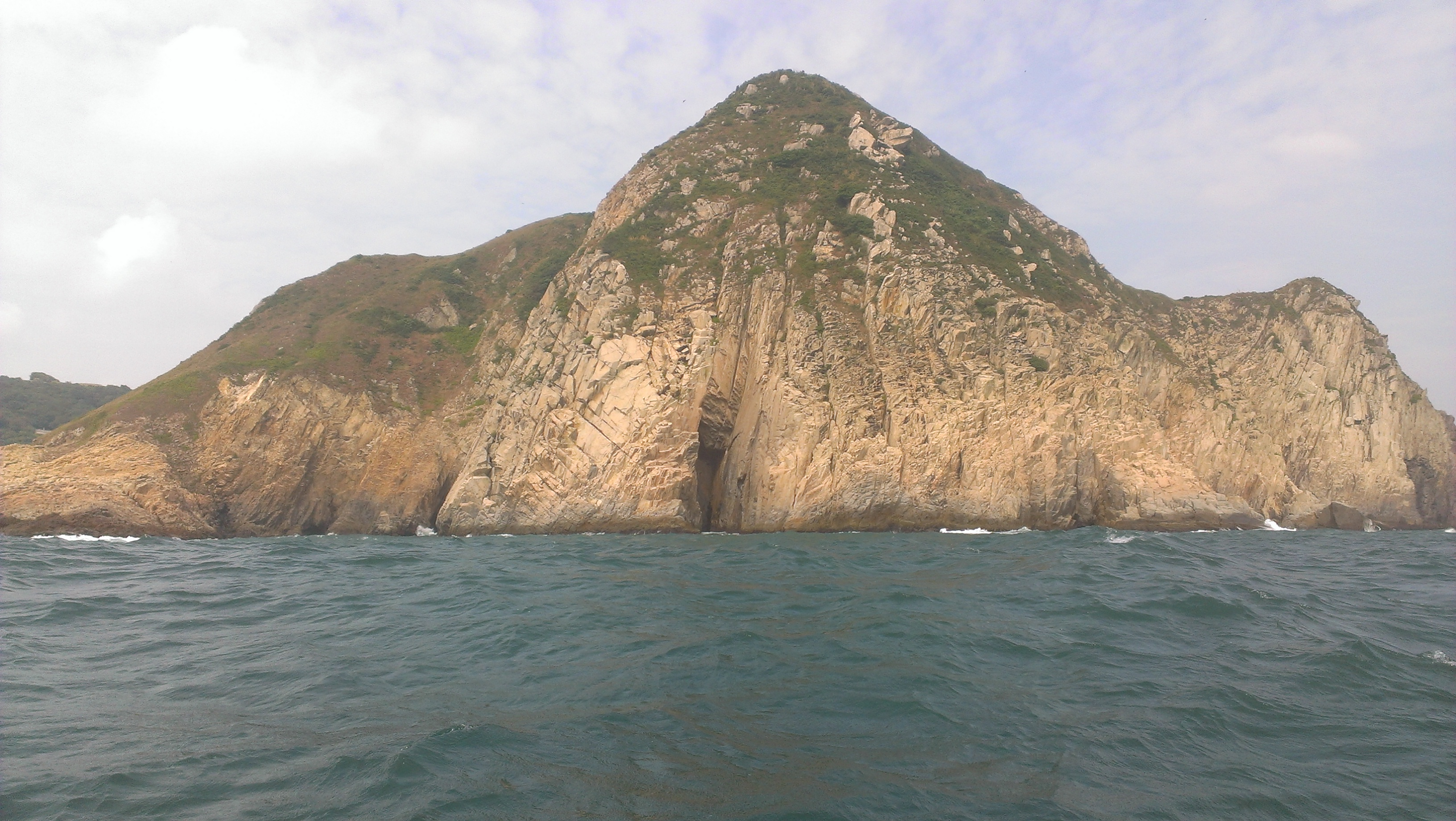 Po Keng Teng located in Southeastern corner of Clear Water Bay Peninsula